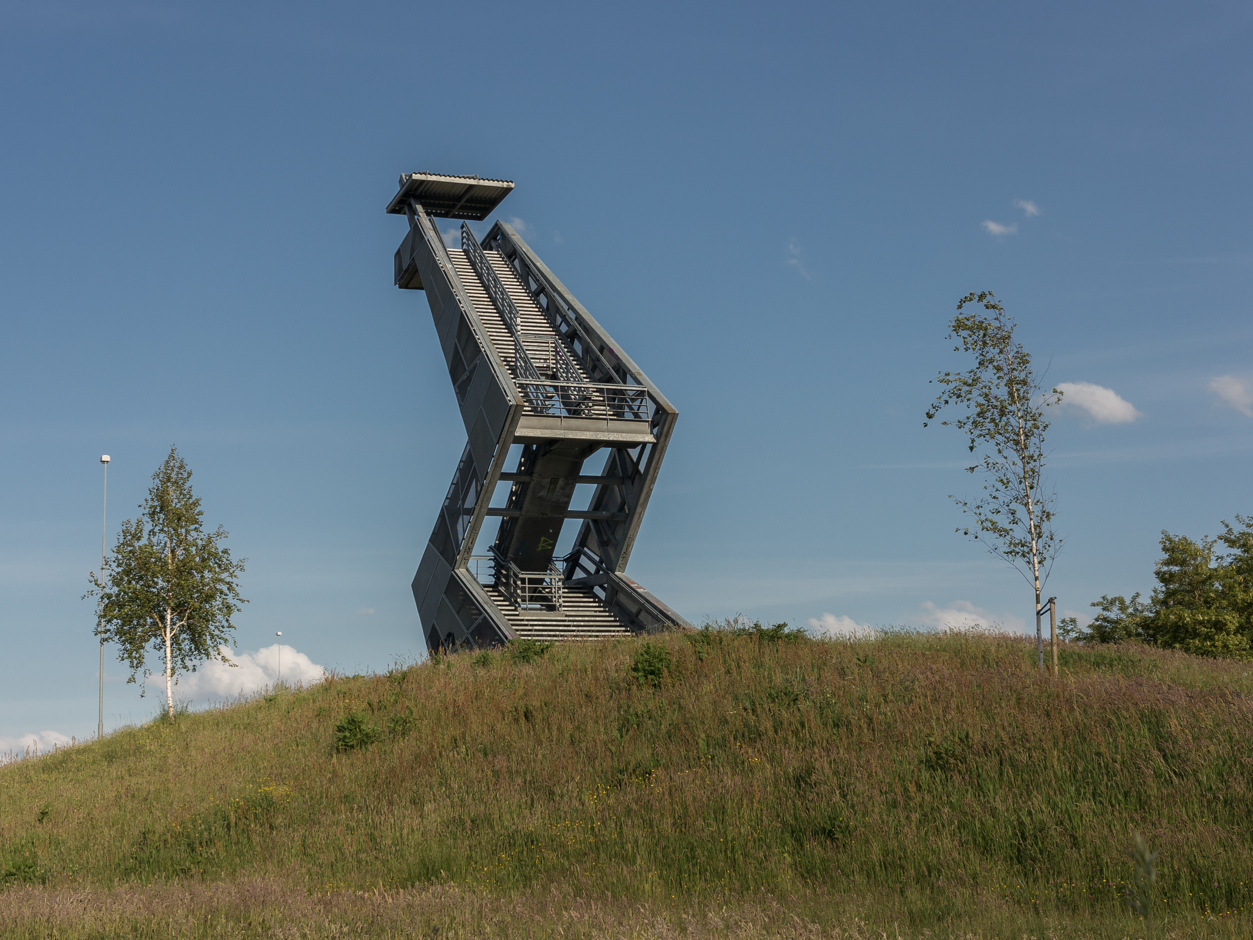 Breda, sculpture near Vinkenbergseweg, Bliksemschicht (A16)